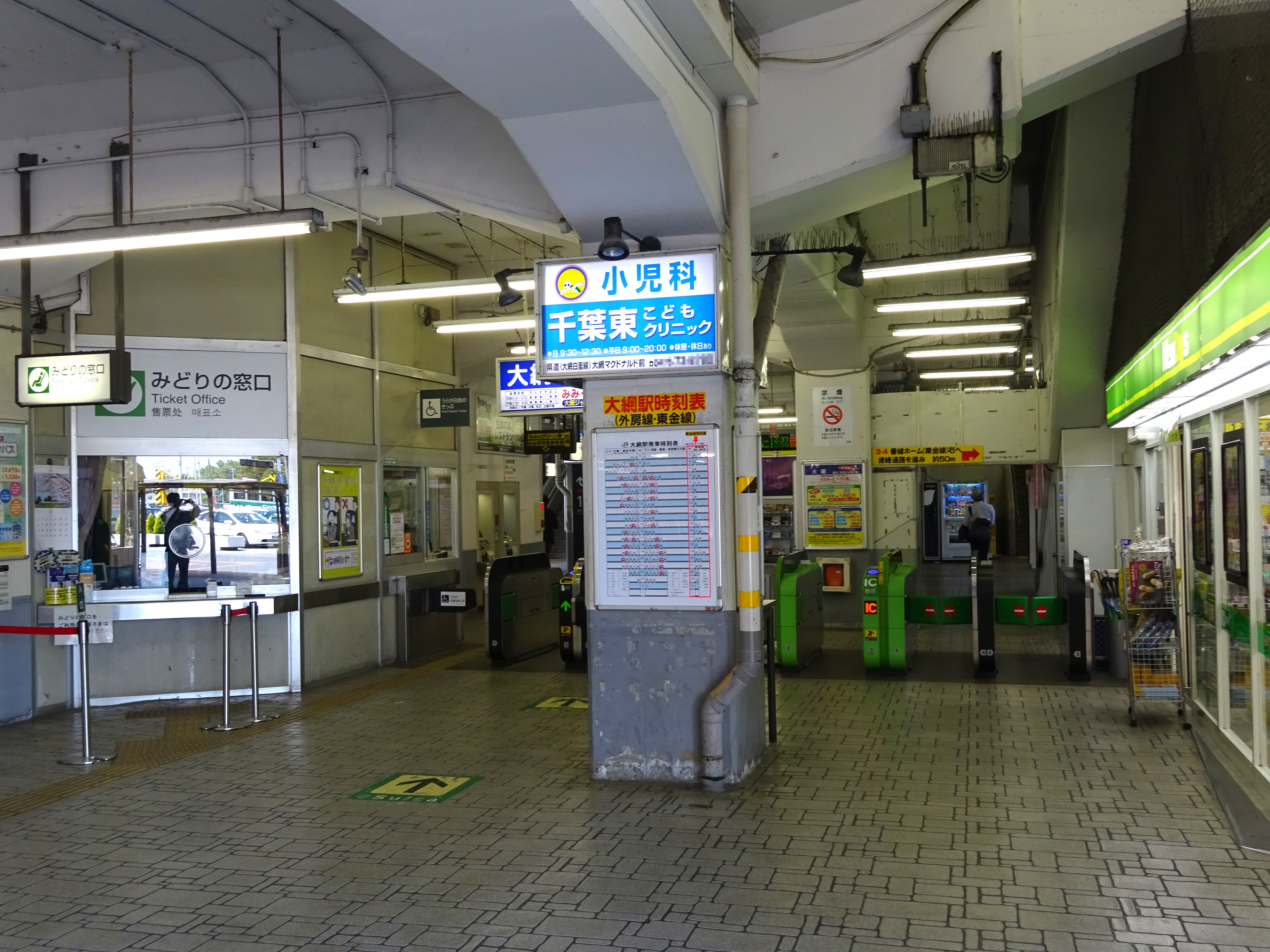 Ticket barriers of Ōami Station